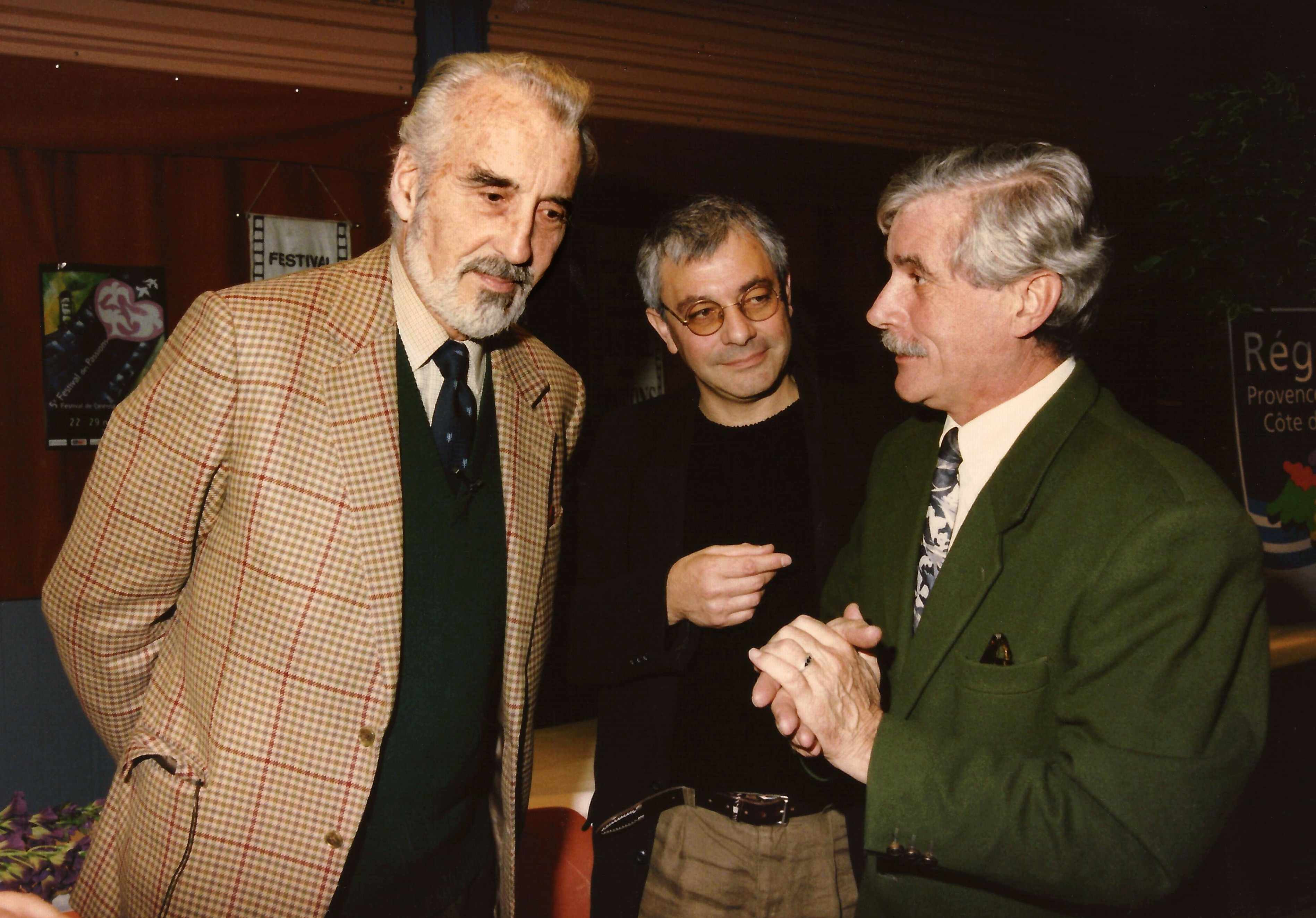 Christopher Lee (left) at the Aubagne International Film Festival in September 1996.